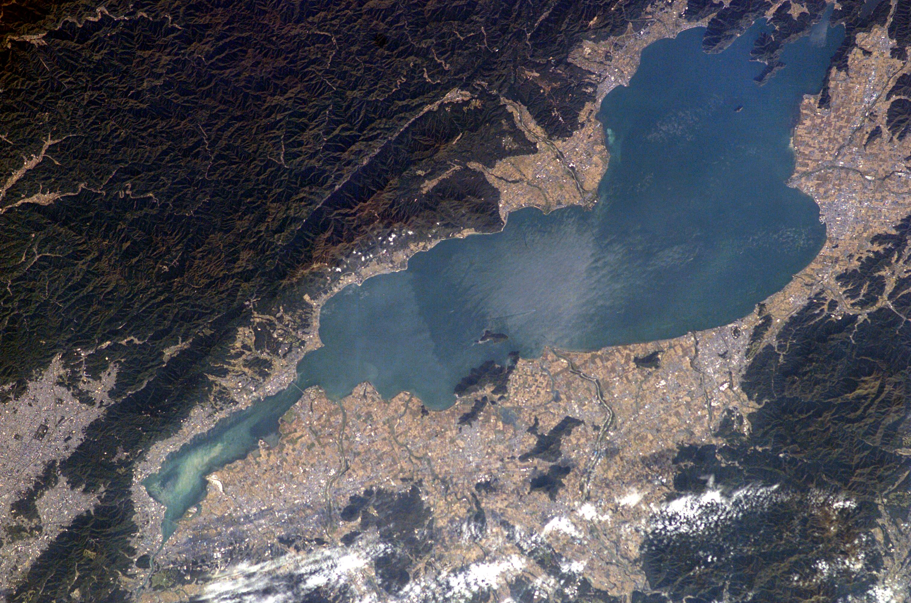 A NASA photo of Shiga Prefecture, Japan. Shows Lake Biwa